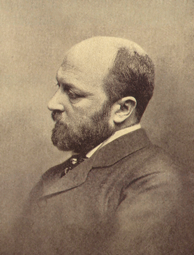 Photograph of Henry James.